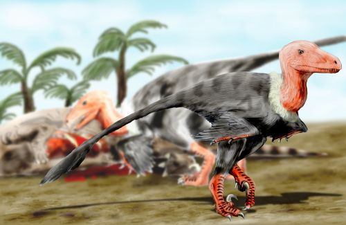 Deinonychus